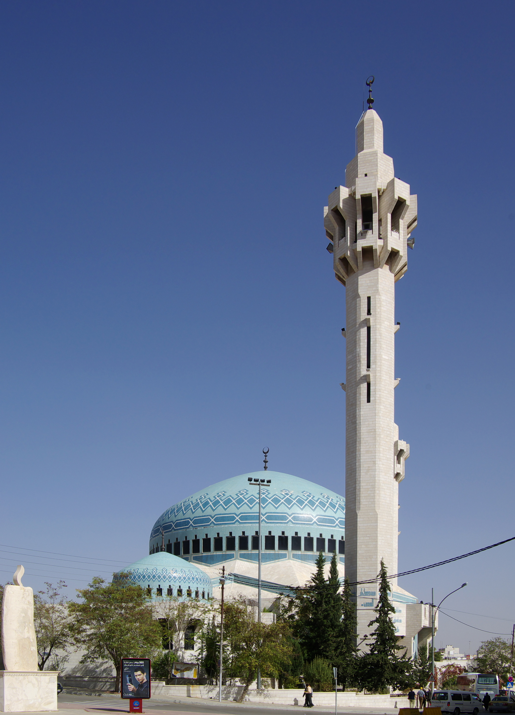 Jordan, Amman, King Abdullah Mosque